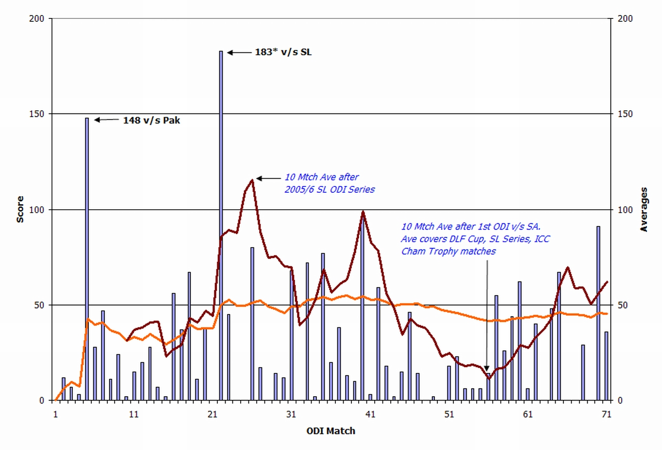 One Day International Career Graph of Mahendra Singh Dhoni. Orange line indicates progression of career average while the brown line indicates ten most recent innings at that point. This graph was generated with Microsoft Excel 2002, using data from Cricinfo website The information in this chart is current as of 15 May 2007.